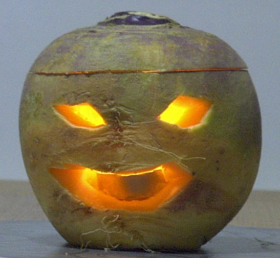 taken by me of a Jack-o'-lantern carved from a turnip. Kids don't try this at home unless you want turnip everywhere.